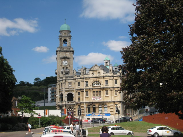 Old Town Hall, The Brook, Chatham, Kent Now The Brooke Theatre